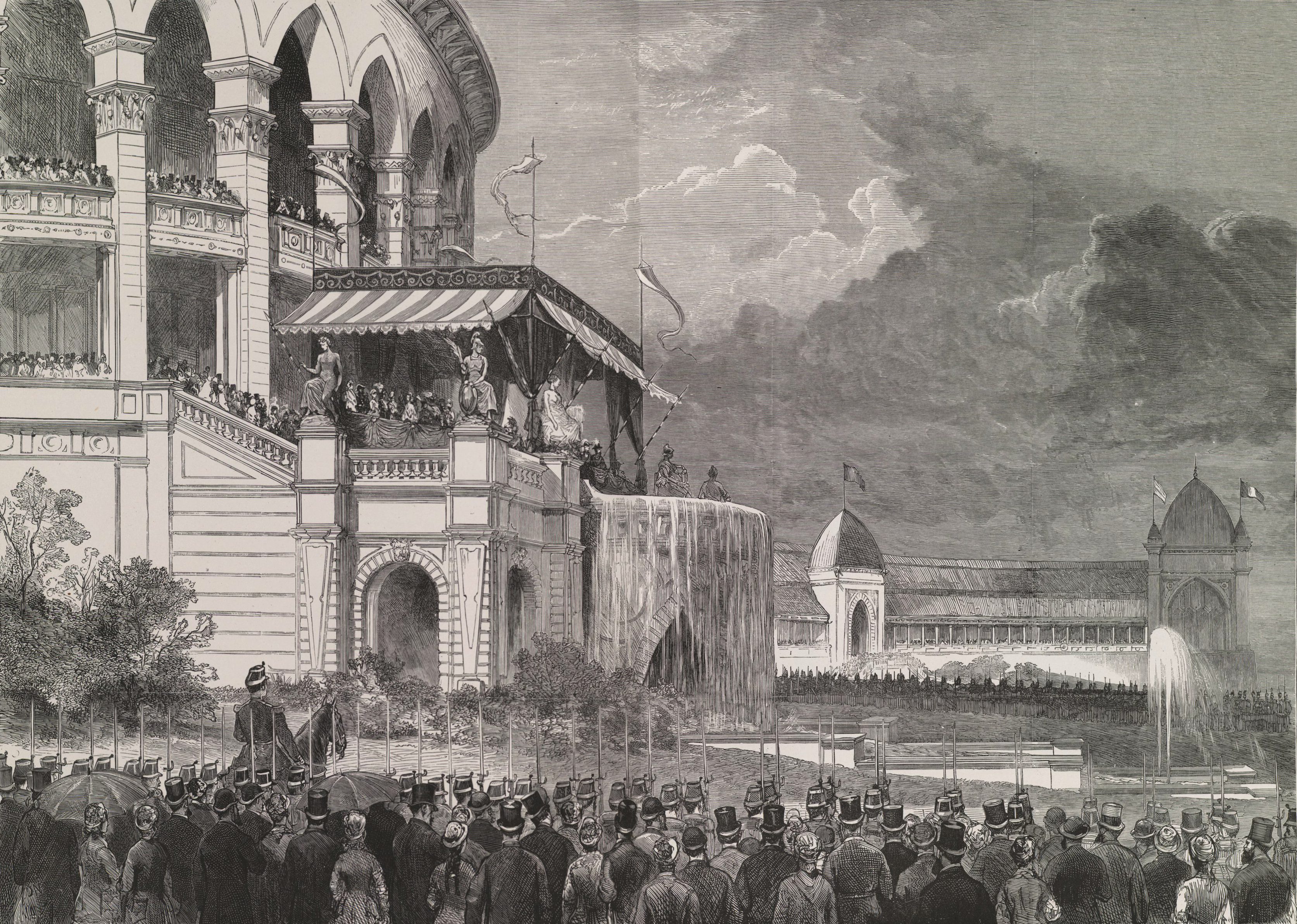 Opening ceremony of the 1878 World Fair. The 1878 Fair was the first one in France to be organized under a republican regime. The president at the time was Maréchal Mac Mahon, who had close ties with the royalist political circles. He participated in the opening ceremony on May 1st, even though many buildings of the fair had not been completely finished. The building represented on the image is the Trocadéro, which had been designed specifically for the fair by the architects Davioud and Bourdais. The building had three parts: the monumental central rotunda served as a reception and concert hall which could contain about 5,000 people. Two galleries on each side (one of them can be seen on the right of the image) went from the rotunda to the outside of the building, and were inspired by St Peter's Piazza in Rome. The Palais was eventually damaged by a fire in 1935, and does not exist anymore today.